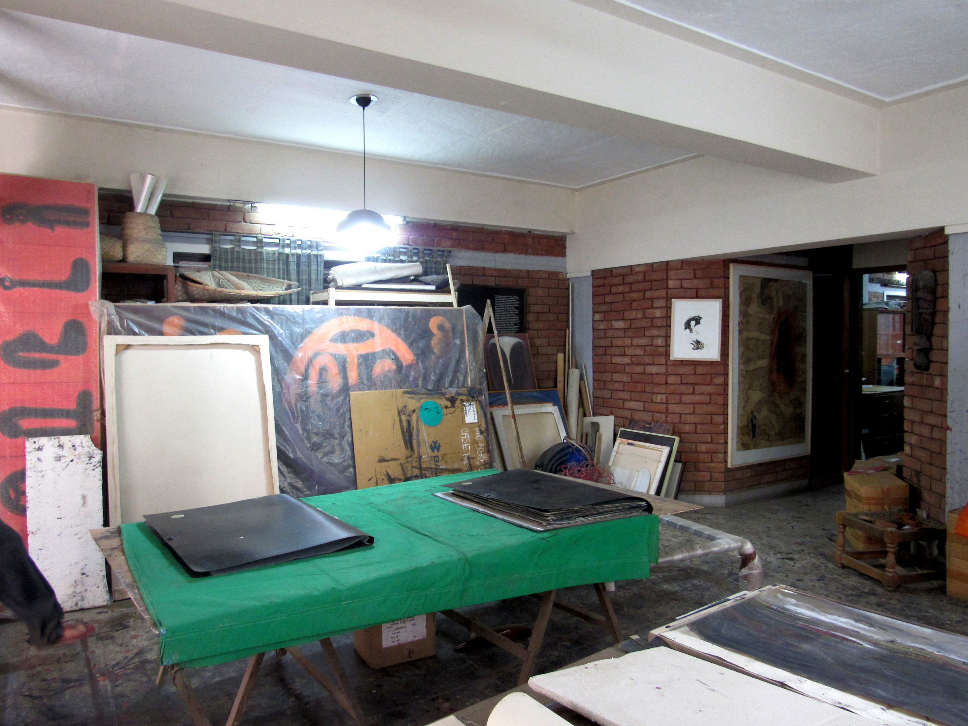 Painting studio of artist and sculptor Hamiduzzaman Khan, in Dhaka.